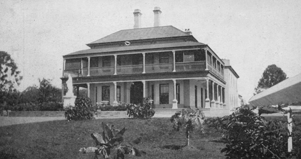 Glen Lyon, a residence in Ashgrove, 1931. Glen Lyon is one of the earliest residences in the Enoggera Creek area, and is closely associated with the development of the suburb of Ashgrove. It is a rare and substantially intact late 1870's country house with associated outbuildings and gardens, and an avenue of trees. This two-storeyed residence, the second oldest in the Ashgrove area, was erected in 1876-7 for Alexander Stewart, a partner in the merchant firm of Stewart & Hemmant. The property, which extended along both sides of Enoggera Creek, was named Glen Lyon after Stewart's birthplace in Scotland.